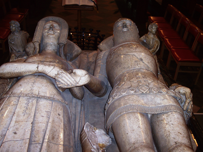 Effigies of Thomas de Beauchamp, 11th Earl of Warwick (died 1369) with arms of Beauchamp on his tabard. With his wife Katherine Mortimer, Countess of Warwick. Part of their monument in the centre of the quire in the Collegiate church of St Mary, Warwick. Image taken in April 2004 by descendant of both.